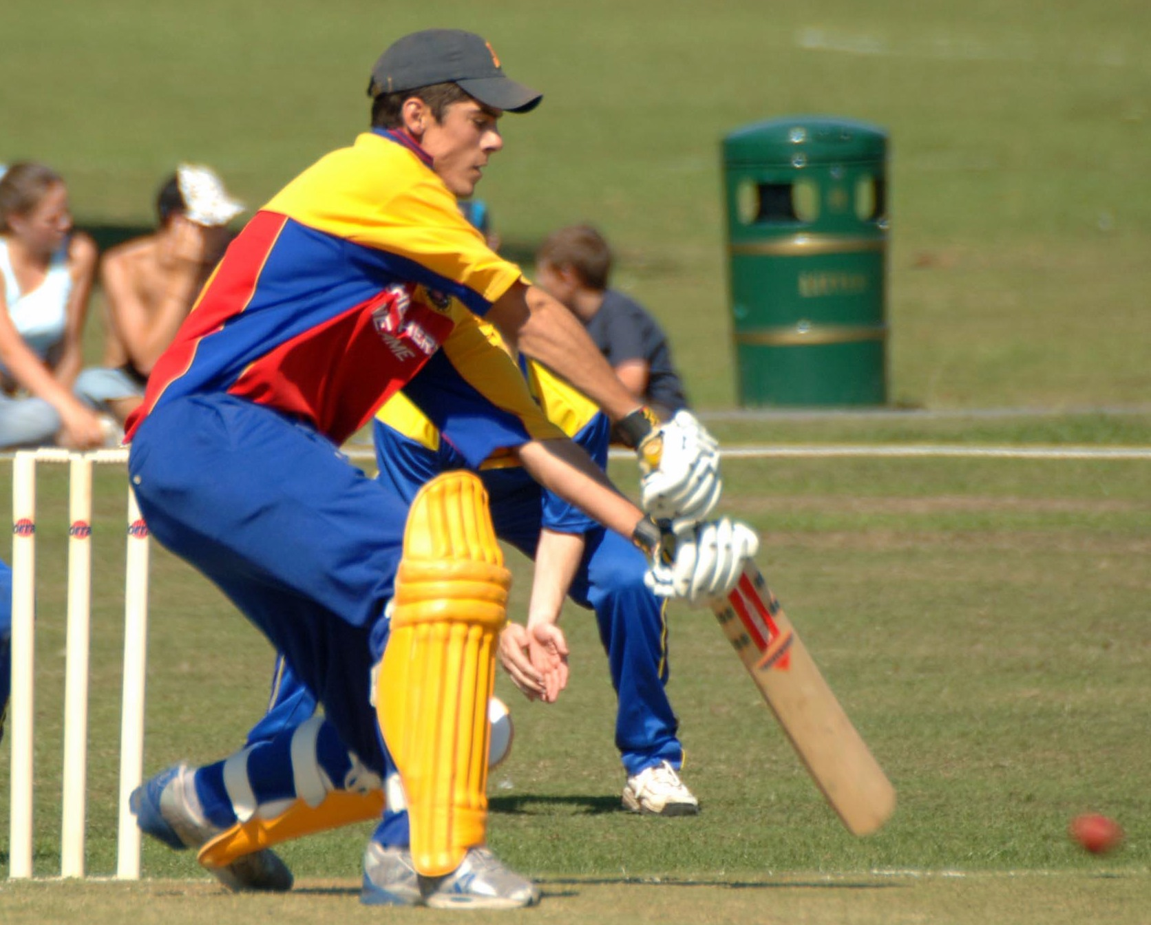 Alastair Cook batting for Essex CCC in Benefit match vs Upminster CC